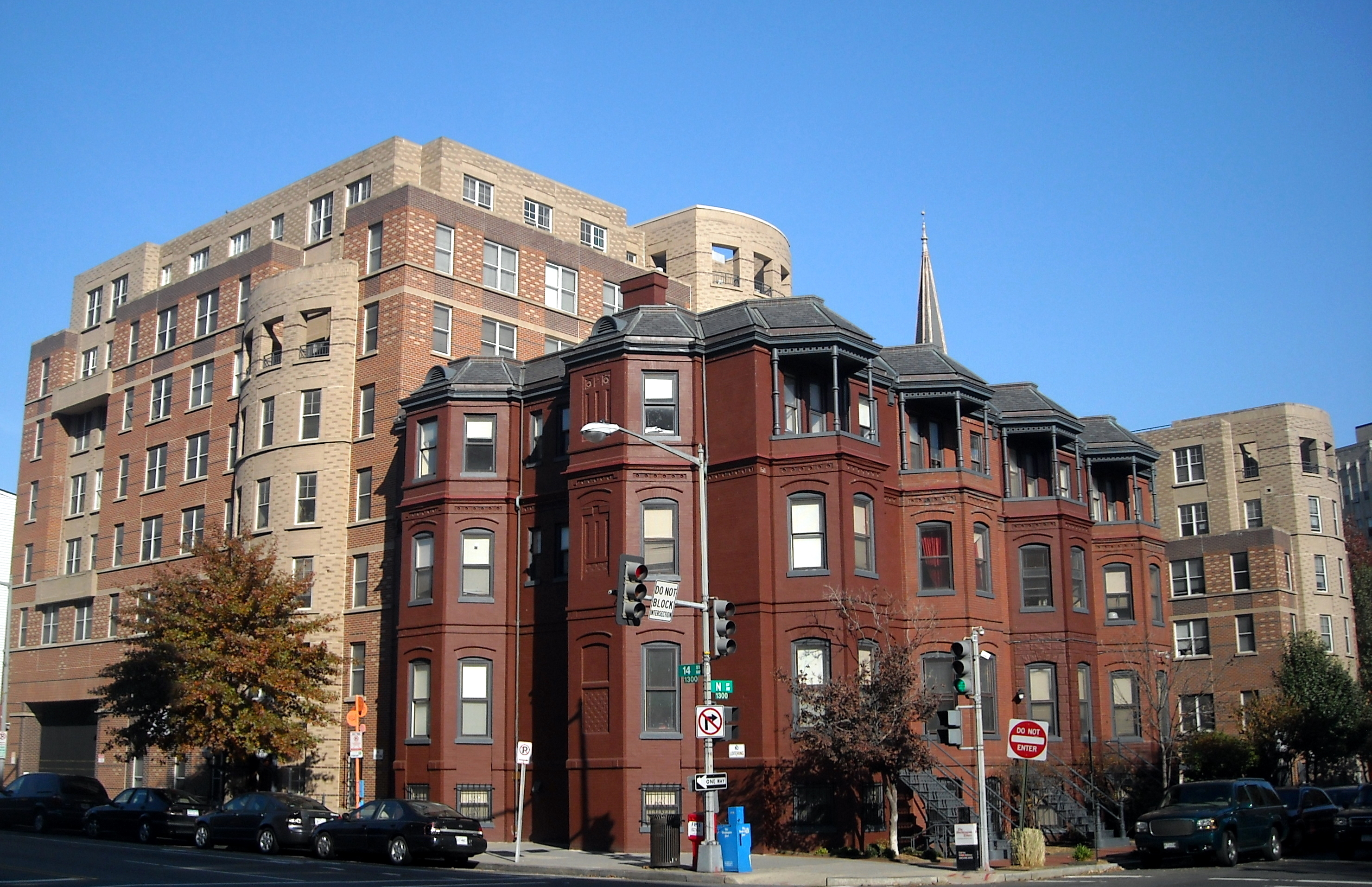 The northeast corner of N Street and 14th Street, N.W., in the Logan Circle neighborhood of Washington, D.C. Pictured is the N Street Village, a non-profit facility offering social services to women who are homeless, low-income, or in recovery from substance abuse. Founded in 1973 by Luther Place Memorial Church, the N Street Village complex incorporates 1329–1335 N Street, NW, contributing properties to the Fourteenth Street Historic District. Built in 1883, the identical, brick row houses were designed by architect Clement Auguste Didden.